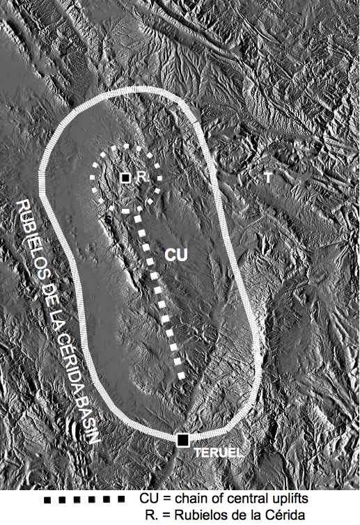 Morphological signature of the Rubielos de Cérida structure taken from the digital map of Spain, 1 : 250,000